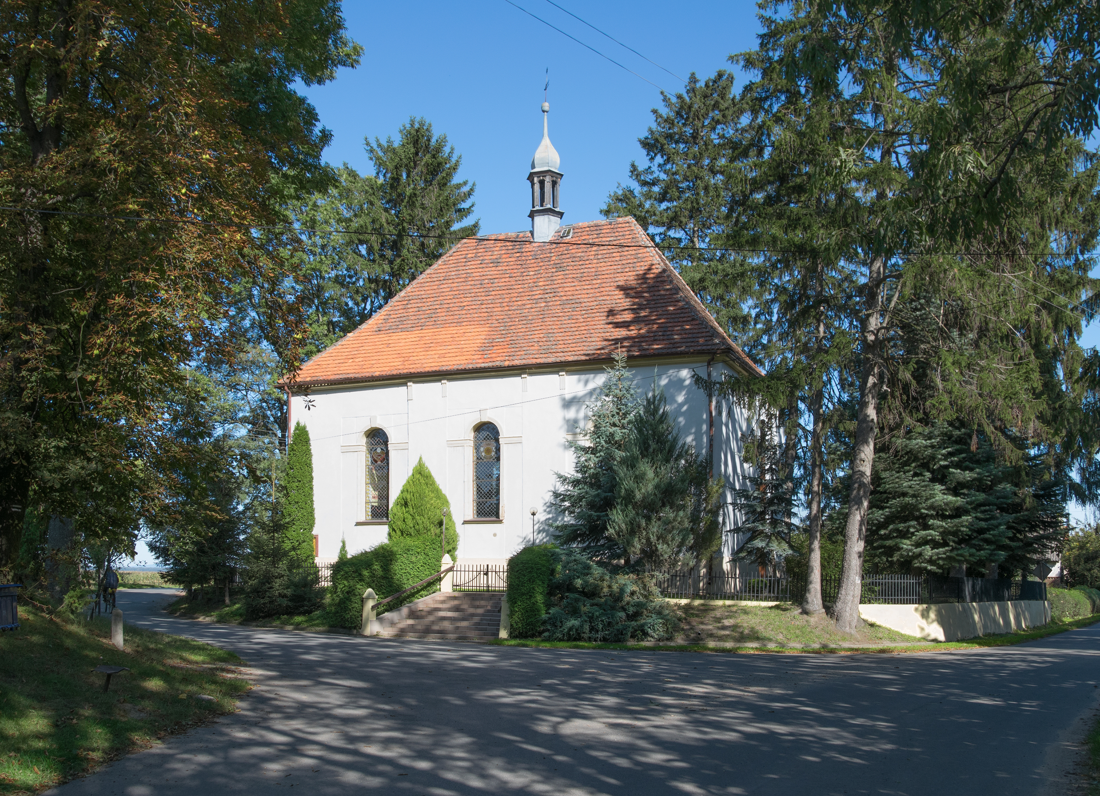 Chapel of the Assumption of the Blessed Virgin Mary in Służejów